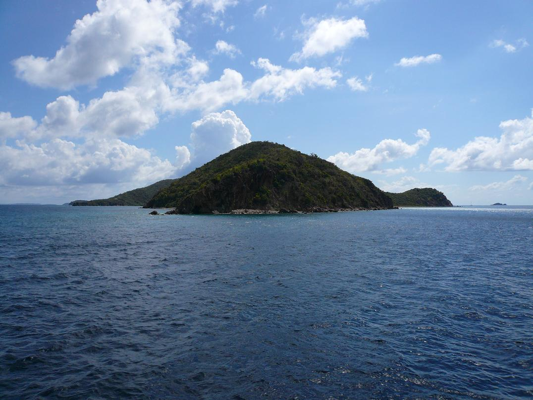 Photograph of Peter Island, British Virgin Islands